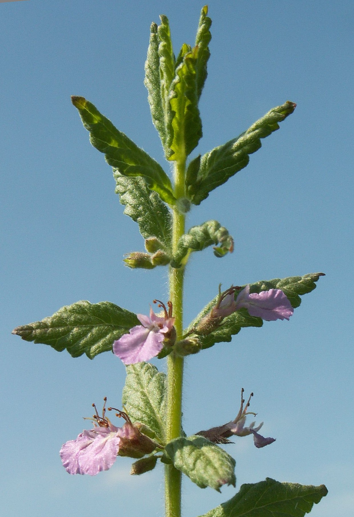 Teucrium scordium on Miedwie Lake, NW Poland